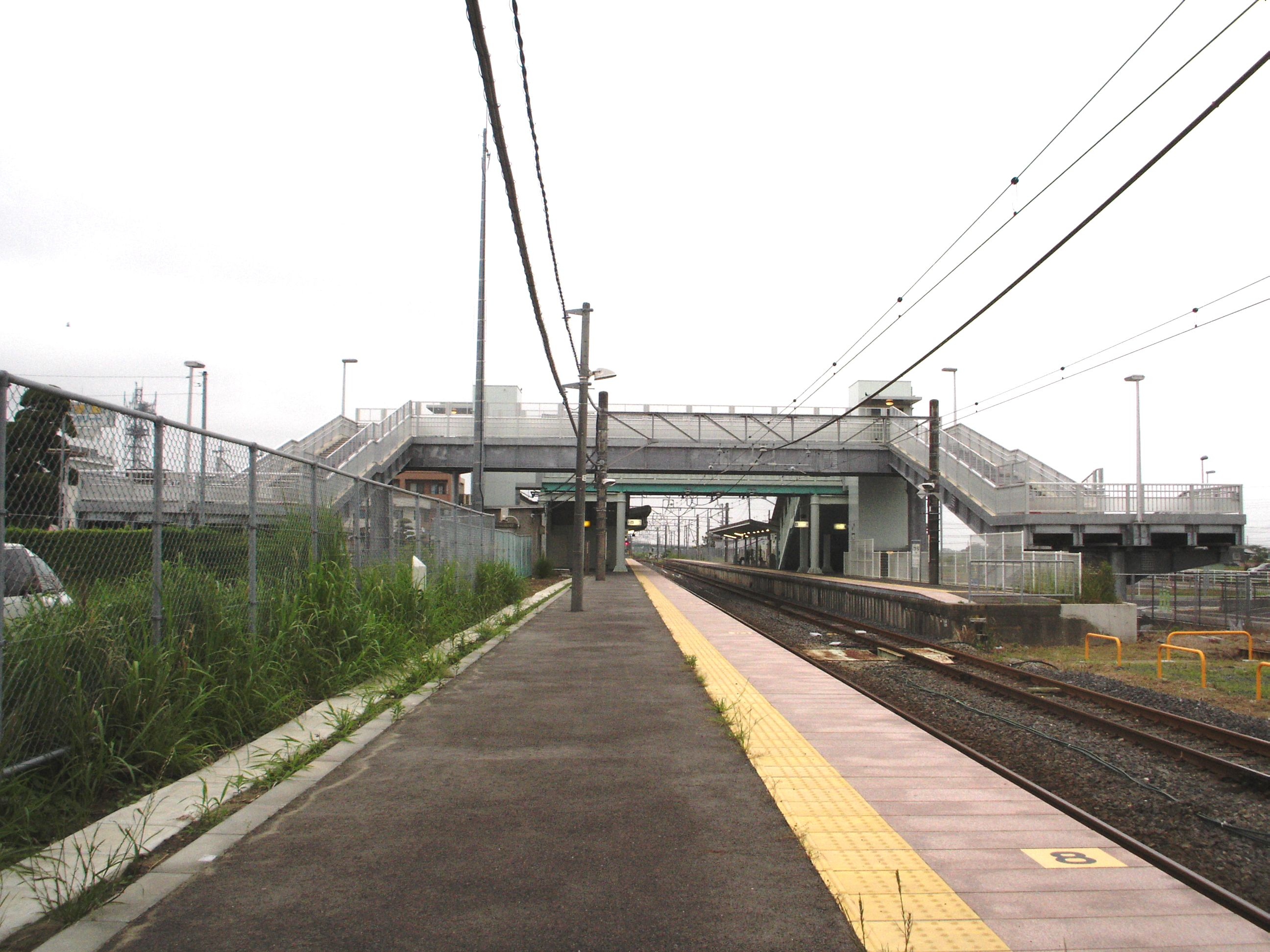 Platforms of Yokaichiba Station on the Sobu Main Line